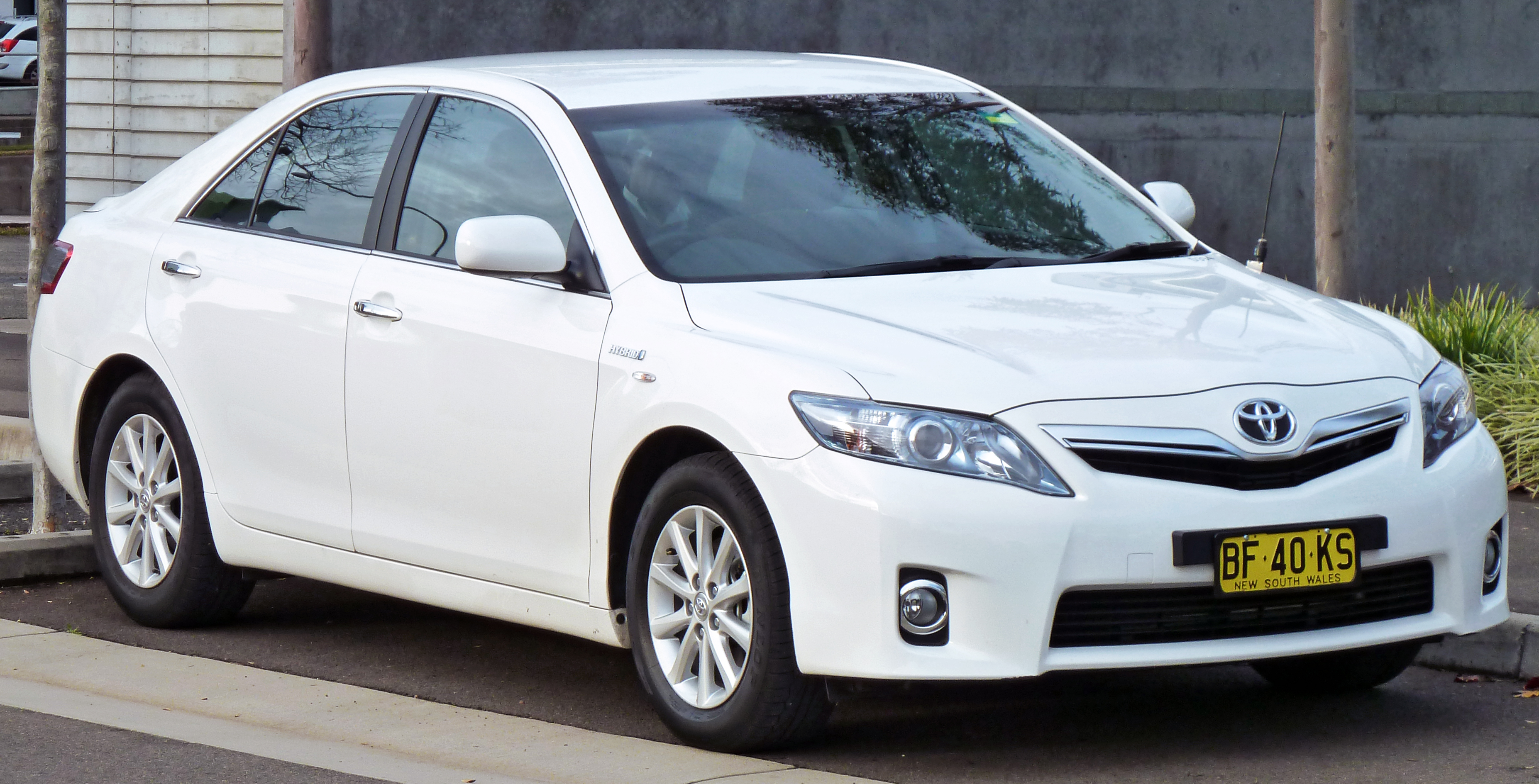 2010 Toyota Hybrid Camry (AHV40R MY10) sedan. Photographed in Zetland, New South Wales, Australia.